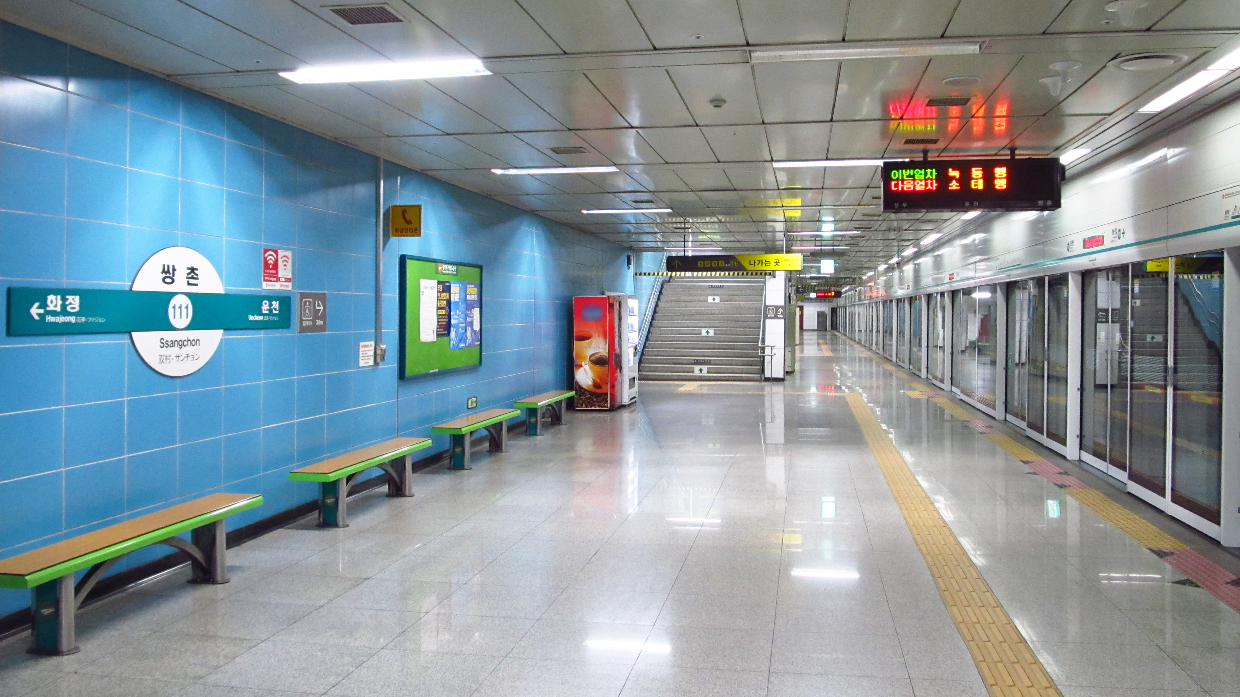 The platform at Ssangchon Station on Gwangju Metro Line 1 in Seo-gu, Gwangju, Republic of Korea(South Korea)